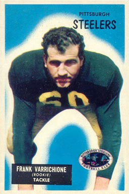 American football player Frank Varrichione on a 1955 Bowman card.